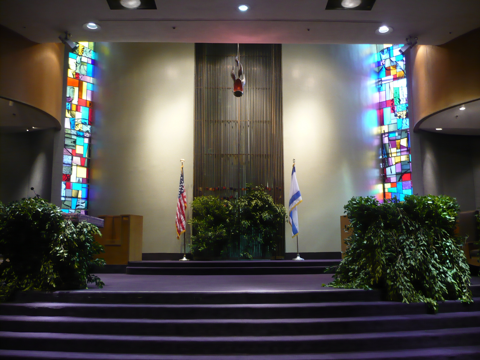 The day of Erev Shavuot of 2008 at Valley Beth Shalom's main sanctuary